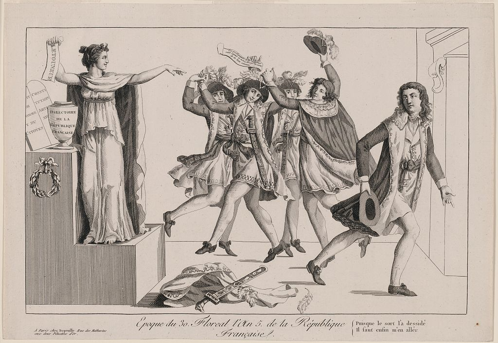 Caricature of French politician Étienne-François Le Tourneur (1751-1817) leaving the Directoire. "Époque du 30 Floréal l'an 5 de la République Française." (19 April 1797). Library of Congress description: "Print shows on the left, a female figure representing the Republic of France drawing a slip of paper from an urn labeled "Directoire de la République Francaise" with Etienne-François-Louis-Honoré Le Tourneur's name on it; she turns and indicates that Le Tourneur must relinquish his position as one of the five leaders of the Directory, his cape and sword lie on the floor as he hastens to depart on the right; the remaining four leaders dance together in the center background."